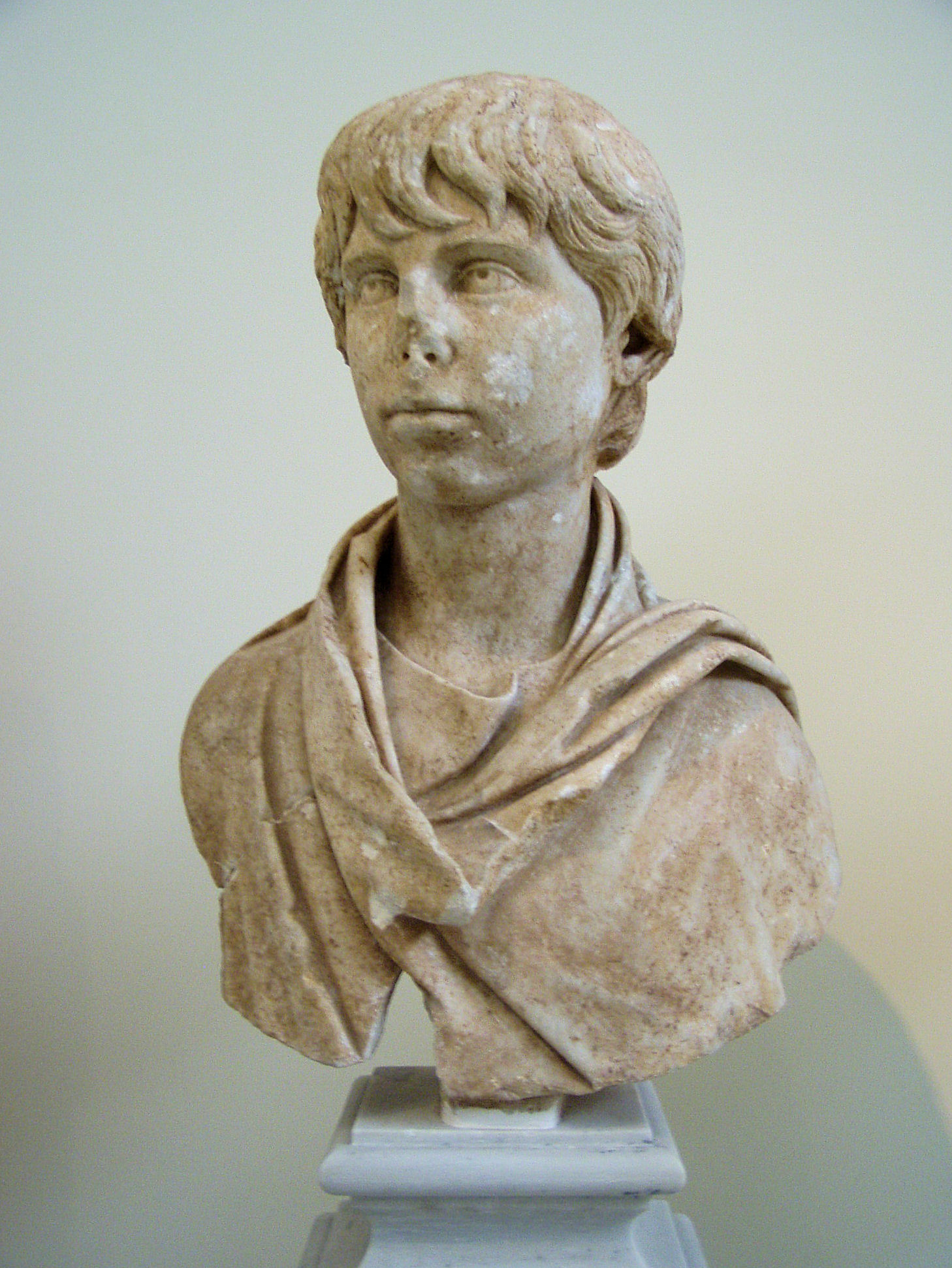 Portrait bust of Polydeukion at the NAMA, Nr 4811.